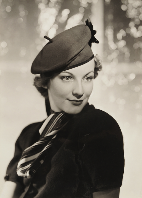 Fashion model Karin Stilke in a professional fashion shooting ("Braune Filzkappe – Modell Gurau-Friedrichs") by photographer Yva about 1938 in Berlin